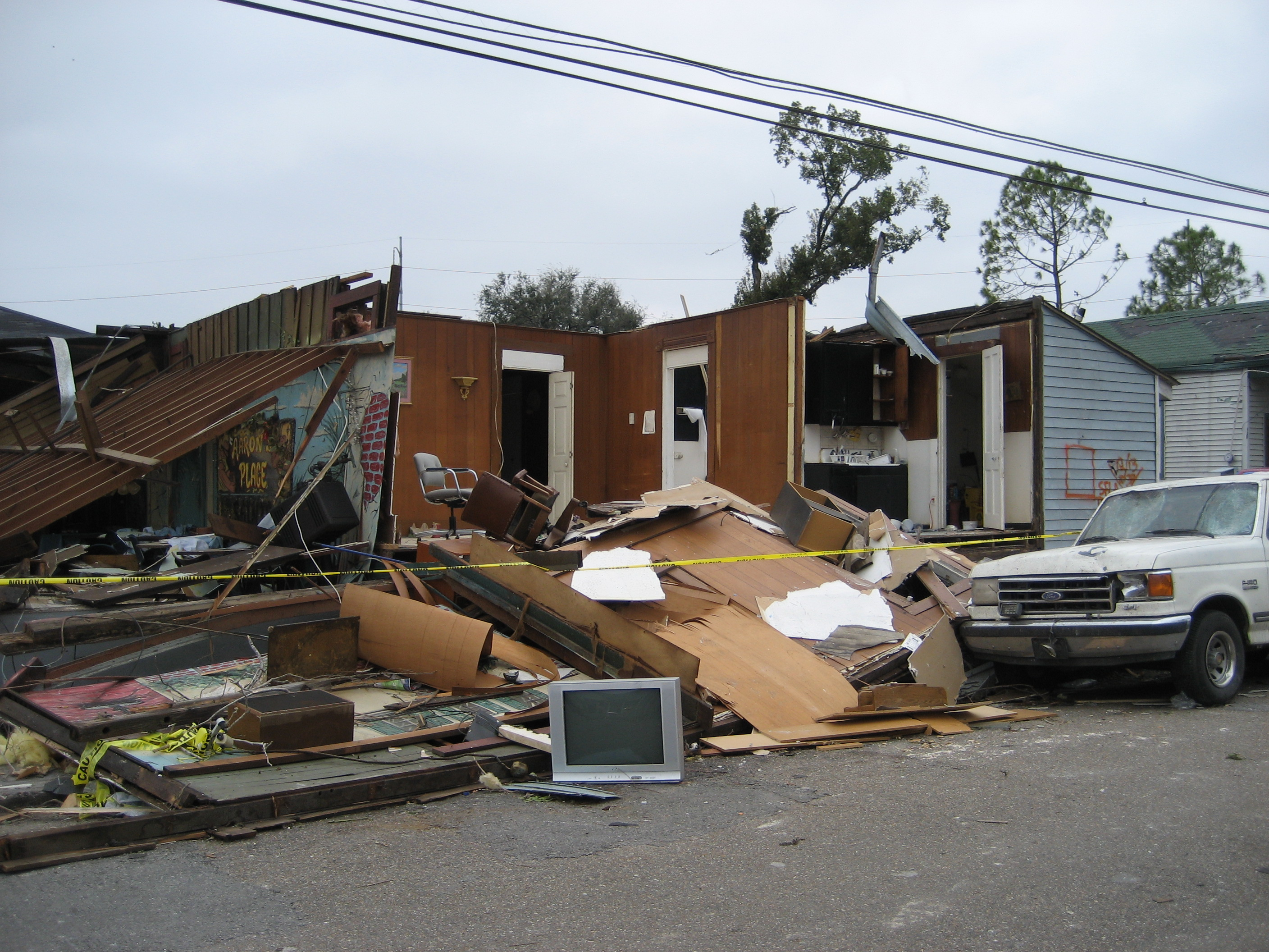 Damage from tornado which hit shortly after 3 am on 13 February 2007 in the Black Pearl neighborhood of the Carrollton section of New Orleans. Damaged building housed neighborhood bar, office